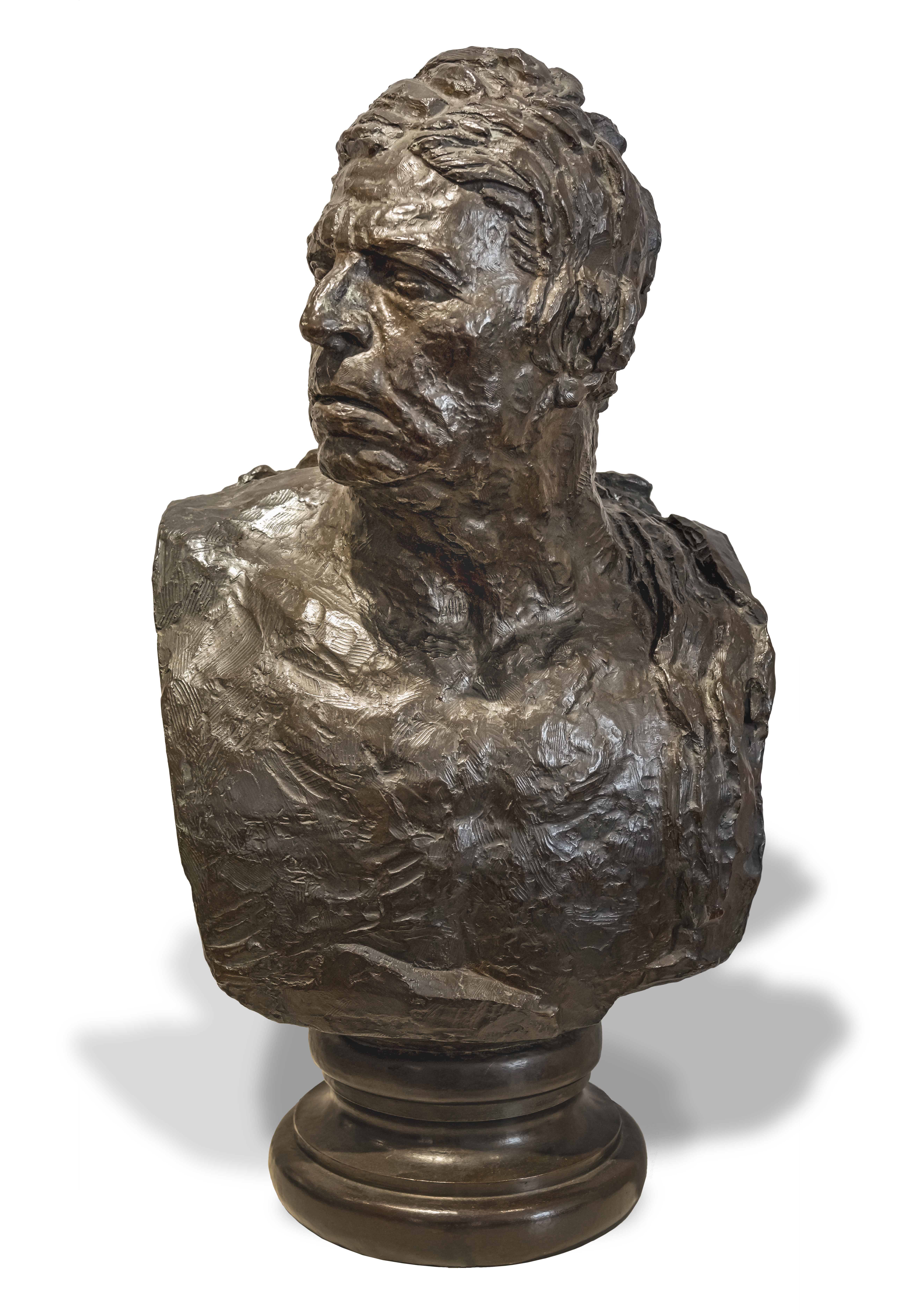 Depicted person: Jean Auguste Dominique Ingres – French painter